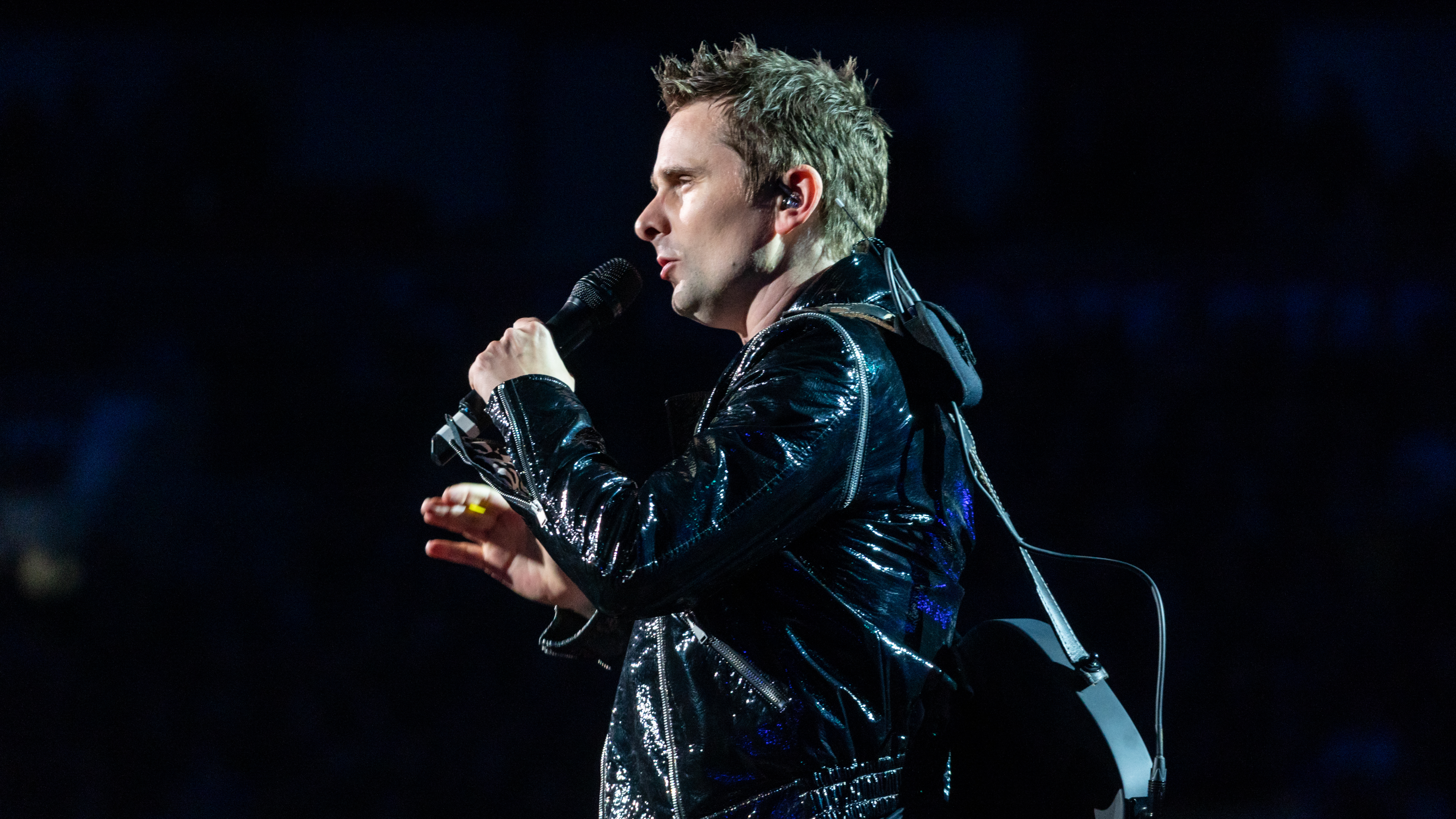 Muse play at Ashton Gate stadium, Bristol, UK.